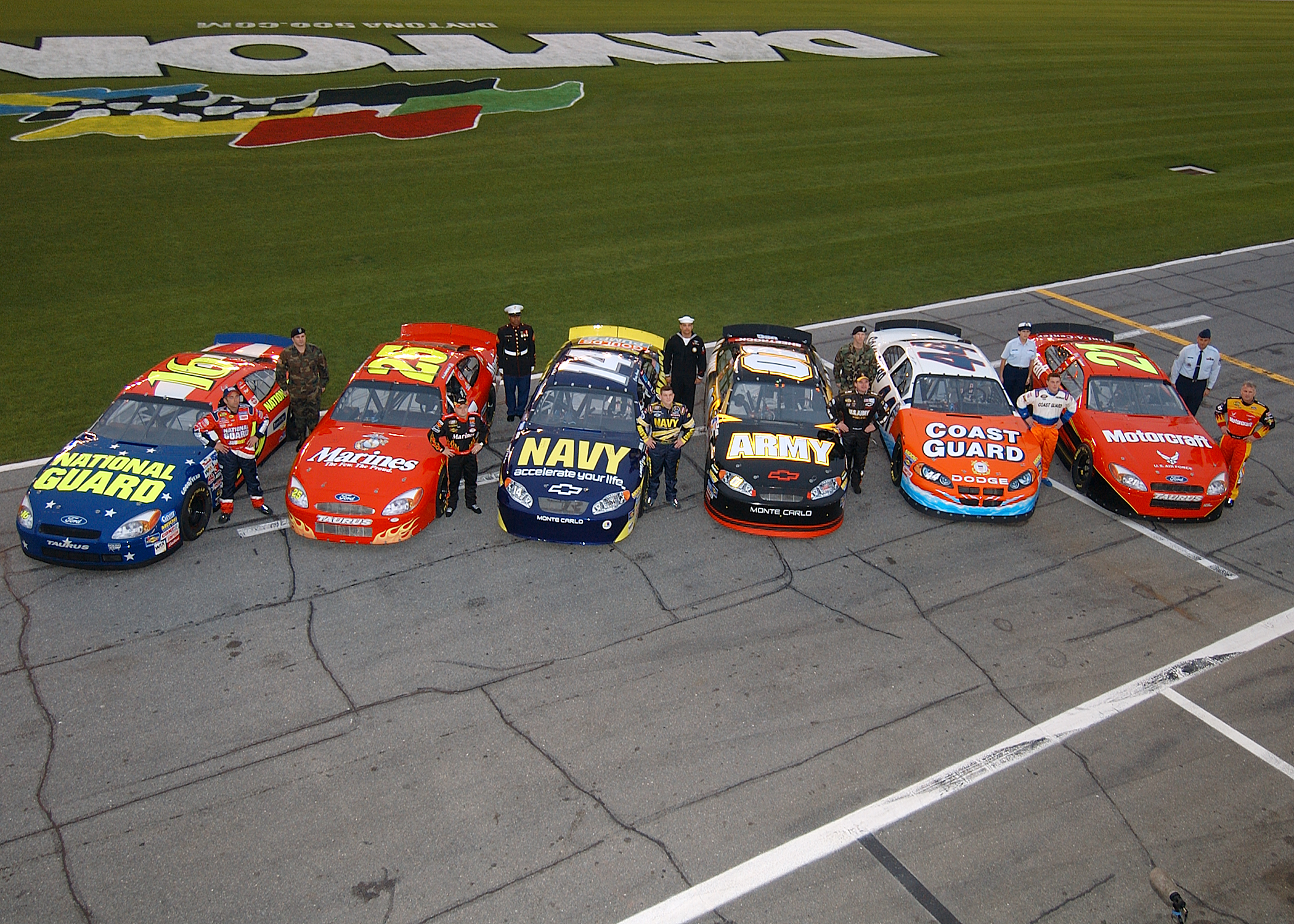 DAYTONA INTERNATIONAL SPEEDWAY, Fla. -- The military-sponsored NASCAR cars line up on the speedway, ready to kick off the 2004 Nextel Cup season here Feb. 15. Ricky Rudd (far right) will be driving the Air Force-sponsored Wood Brothers Racing #21 car. The other service's drivers are (from left) Greg Biffle for the National Guard; Bobby Hamilton Jr. for the Marines; Casey Atwood for the Navy; Joe Nemechek for the Army; and Justin Labonte for the Coast Guard. Standing with the drivers are representatives from each service. (U.S. Air Force photo by Larry McTighe)